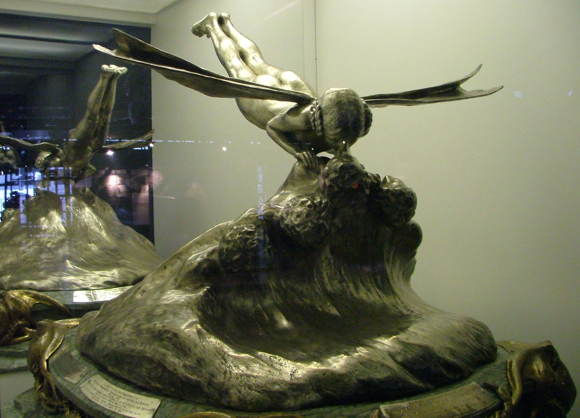 A photo of the Schneider Trophy in the Science Museum, London, UK.